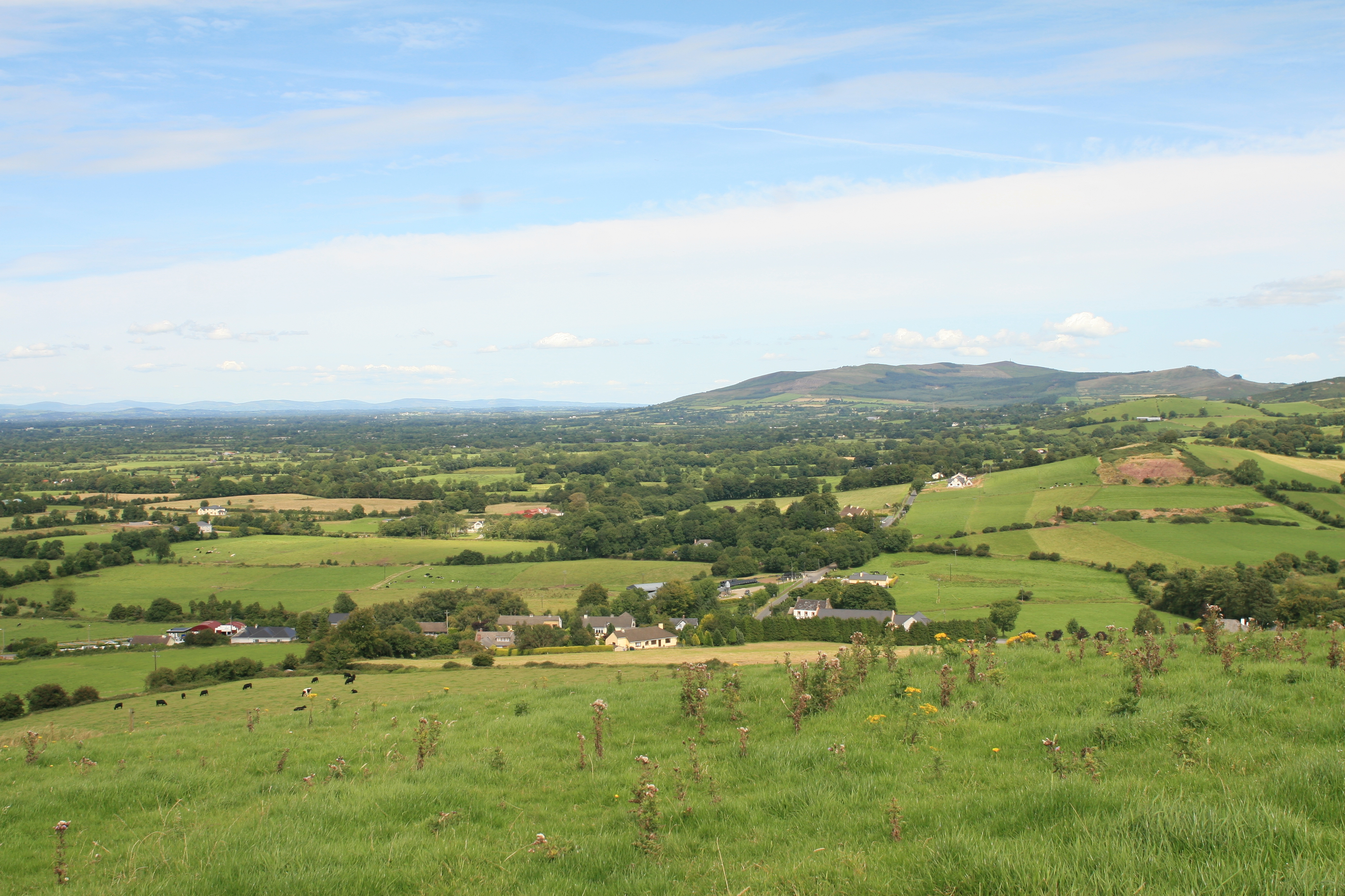 Ardpatrick, County Limerick, Ireland View of the village from the hill site of the former monastery